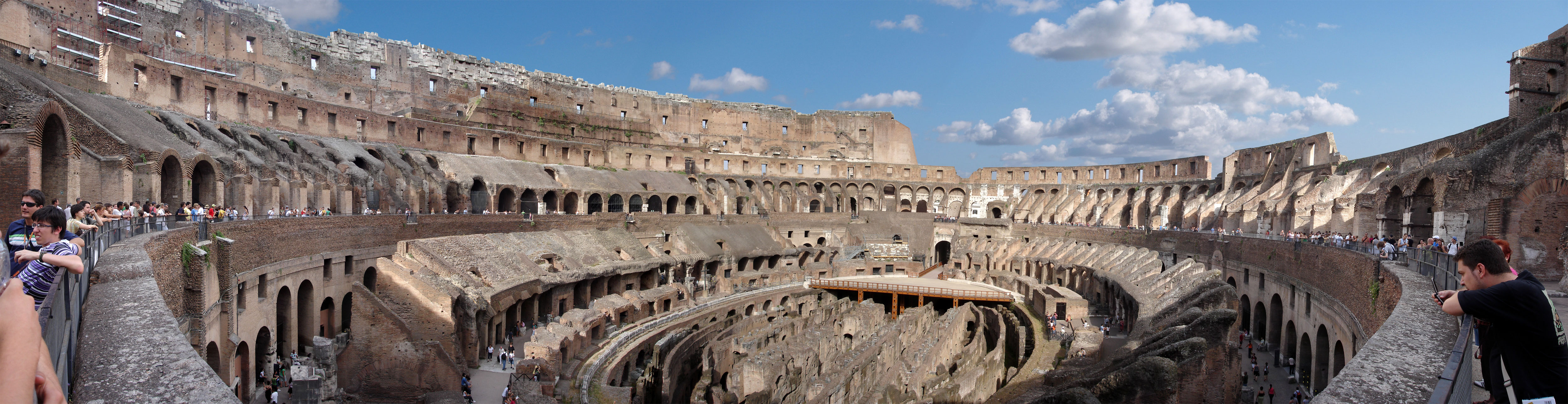 Panoramic image of the Colosseum in Rome from the inside (west), compressed version